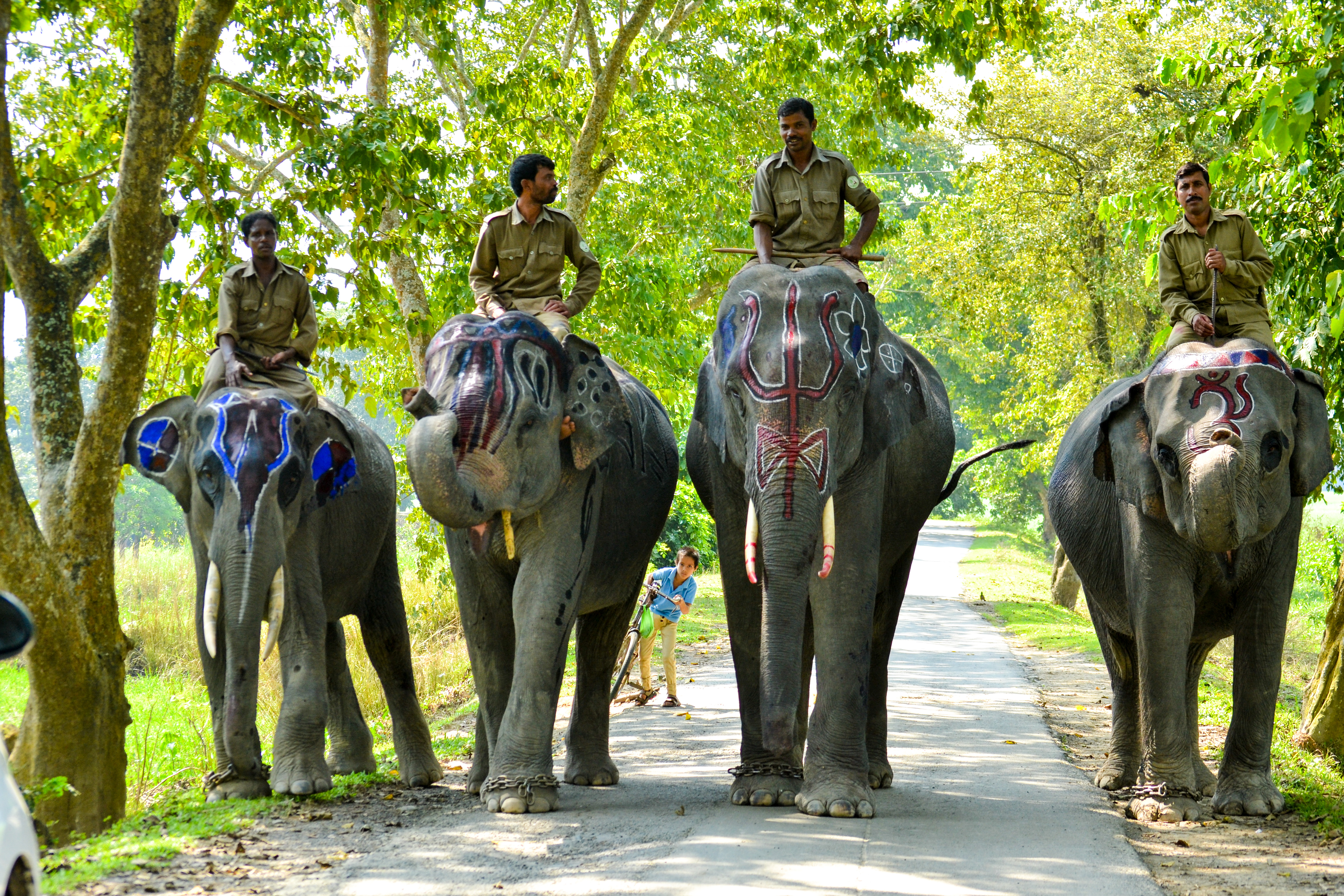 These painted elephants were spotted in Kaziranga National Park.